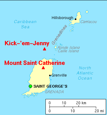 Major volcanoes of Grenada and vicinity, West Indies